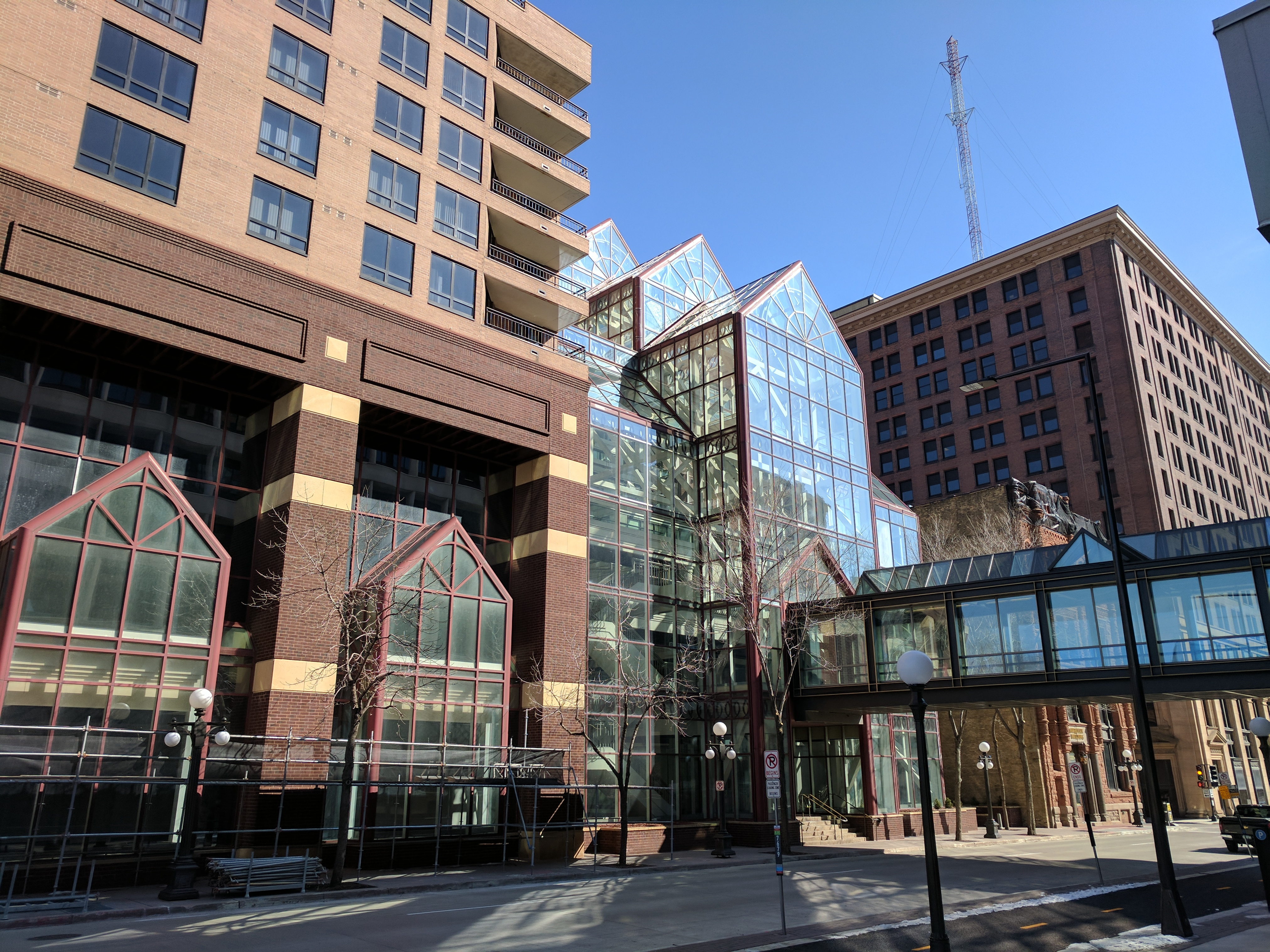 Exterior of the Cray Plaza atrium in Saint Paul, MN